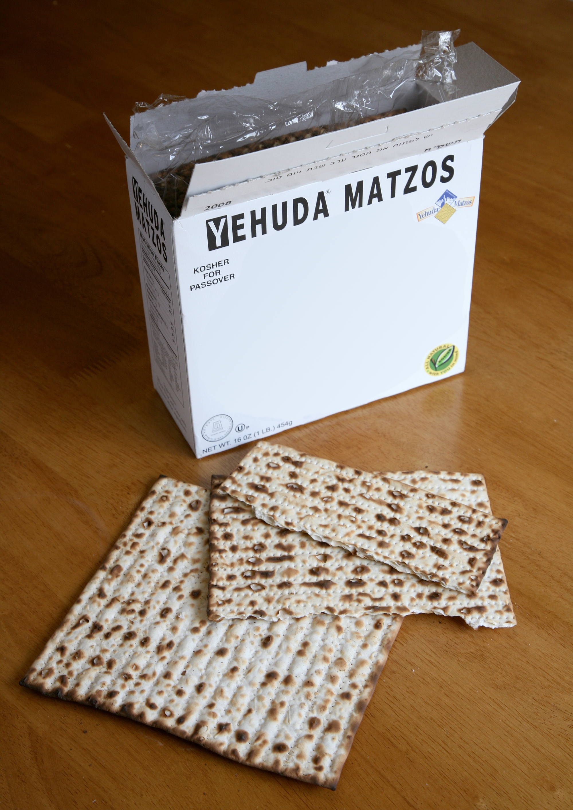 Matze, traditional kosher jewish Passover food. Yehuda Matzos brand, made in Jerusalem, Israel.